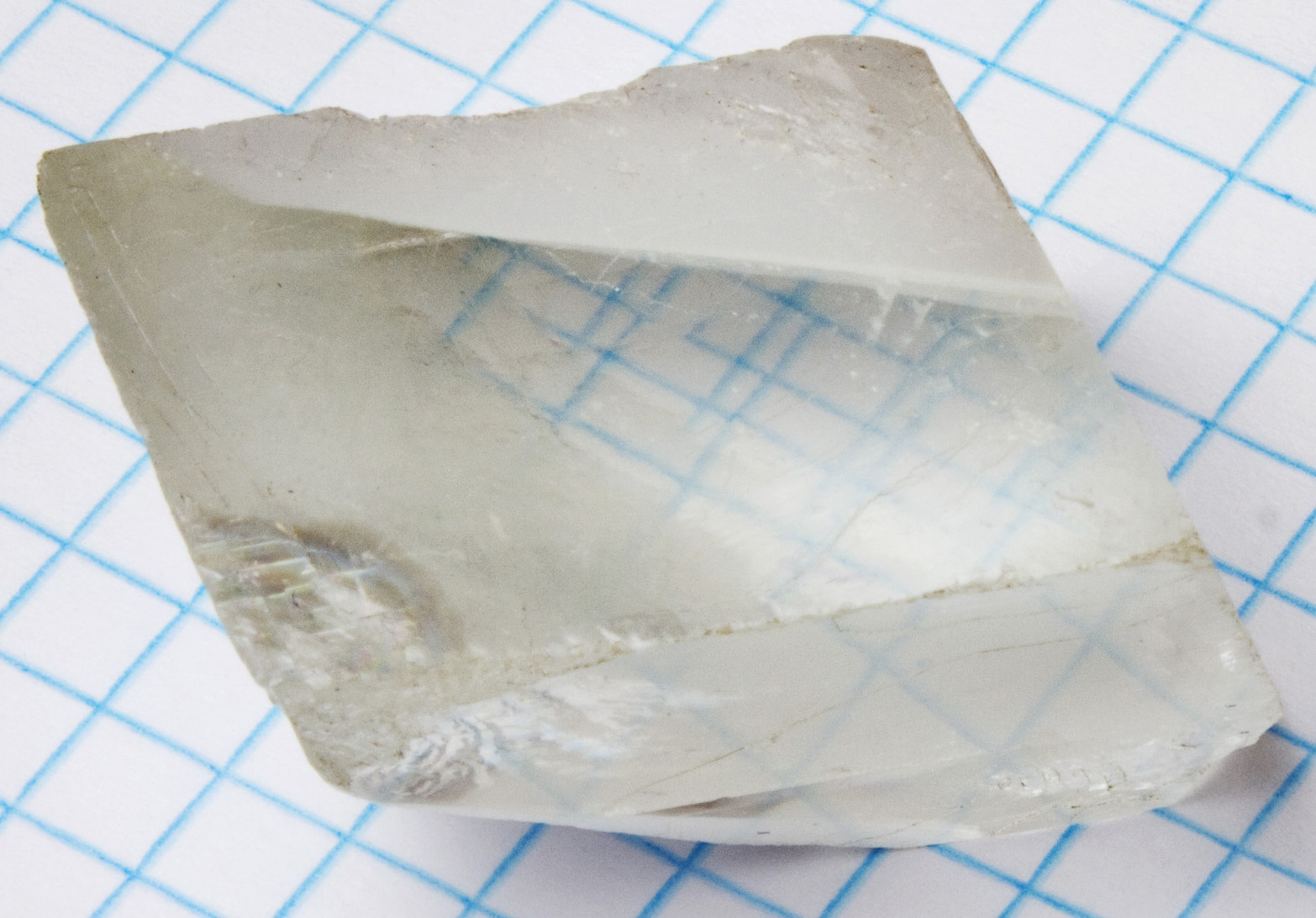 A calcite crystal displays the double refractive properties while sitting on a sheet of graph paper.